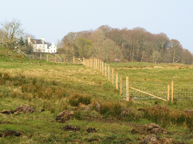 Ardencaple House, Isle of Seil Ardencaple House is situated in the northern part of the Isle of Seil. It was formerly the home of the mother of Diana, Princess of Wales.